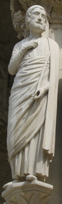 Porche Nord, portail central de la cathédrale de Chartres, statues de gauche - Philip Hurepel